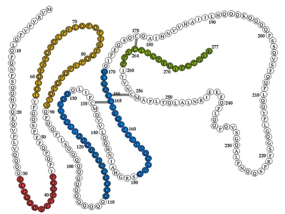 Relevant gliadin peptides in celiac disease